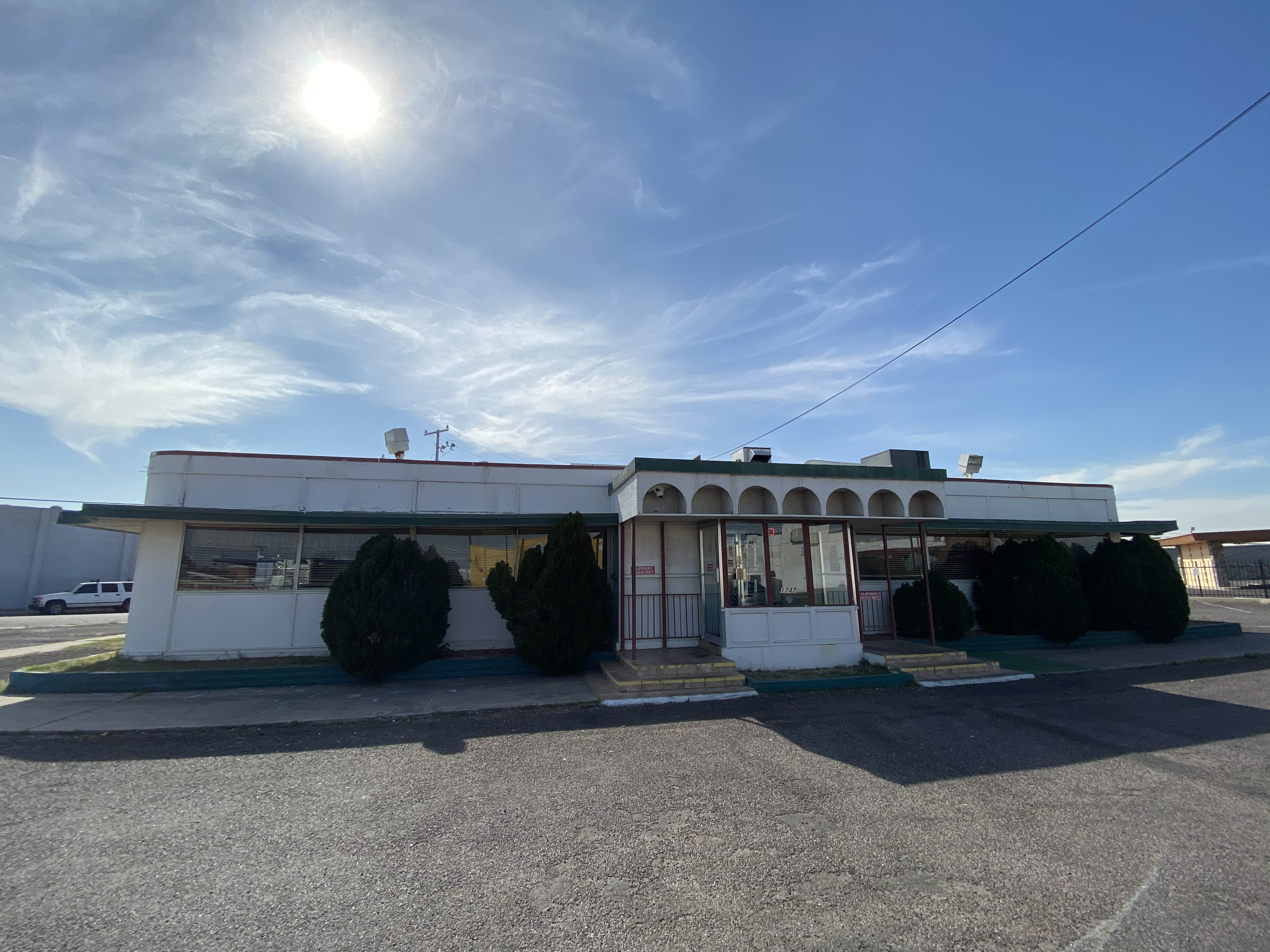 Exterior of Mel's Diner in Phoenix, Arizona.